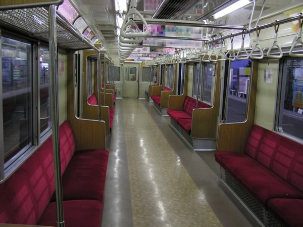 トリミングの有無Cropped or not非トリミングNot Cropped内容Description7126F車内Room of series 7000 on Tokyo Metro Yurakucho Line